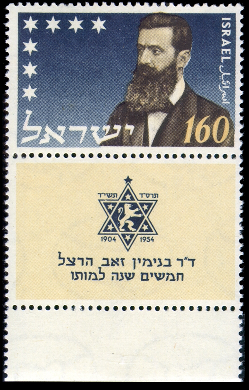 Herzl stamp - 160 mil. Commemorating the 50th anniversary of the death of Dr. Benjamin Ze'ev Herzl. Inscription on tab: "Dr. Benjamin Ze'ev Herzl 50th anniversary of his death"